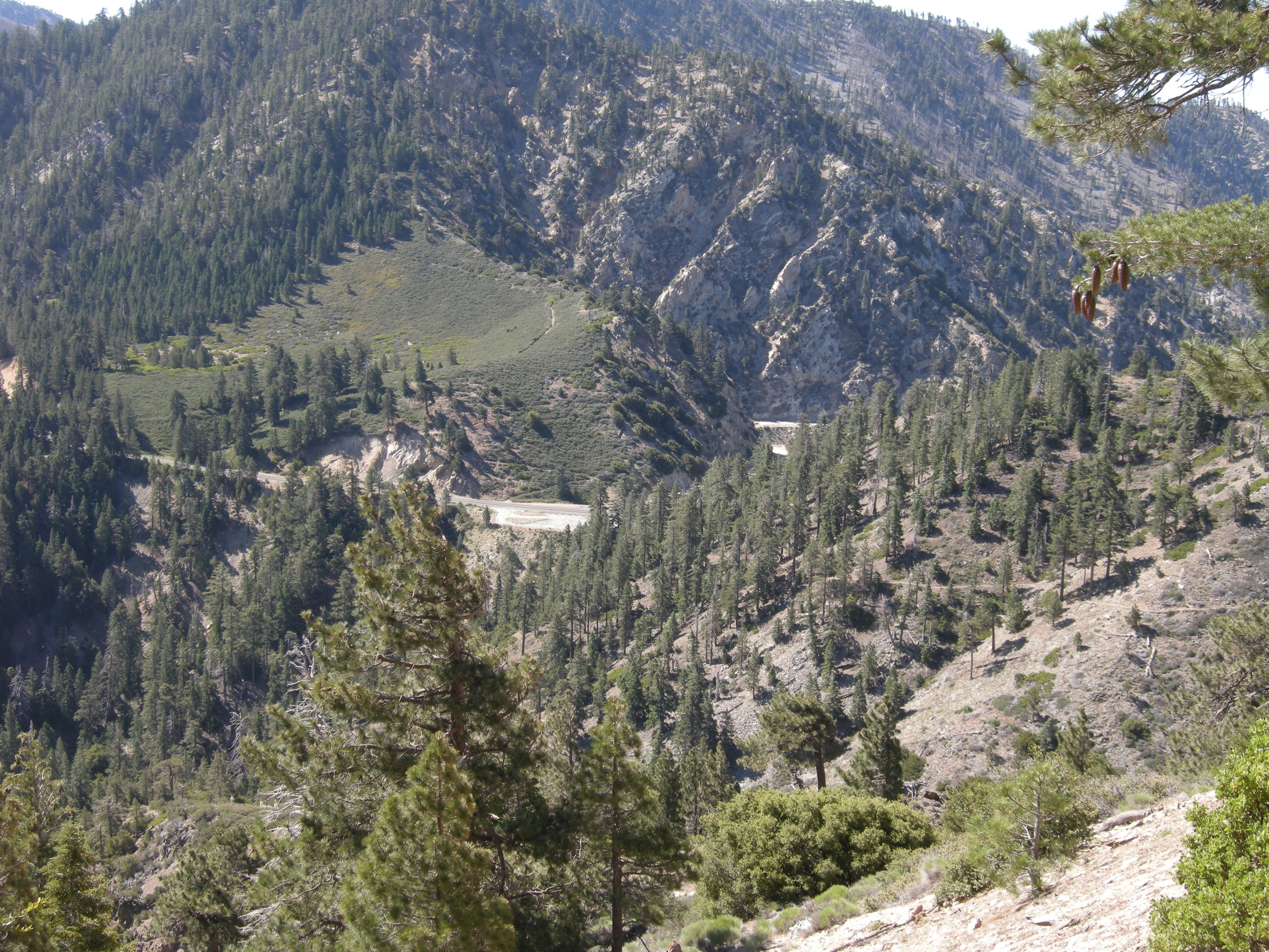 Islip Saddle of the Angeles Crest Highway — seen from the Mount Williamson Trail in the San Gabriel Mountains. Located within the Angeles National Forest, southern California. Credits Please credit